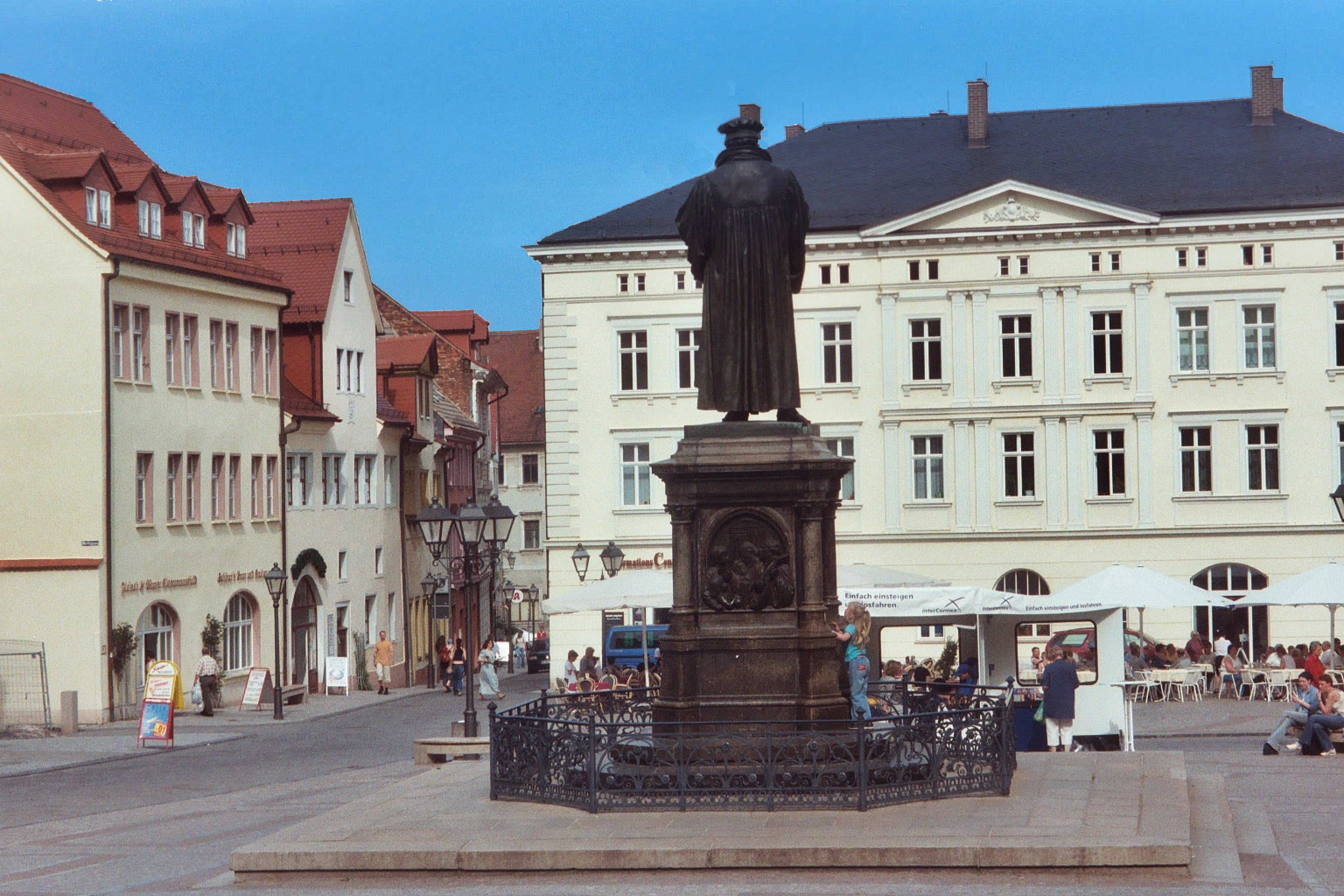 Lutherstadt Eisleben, on the town square